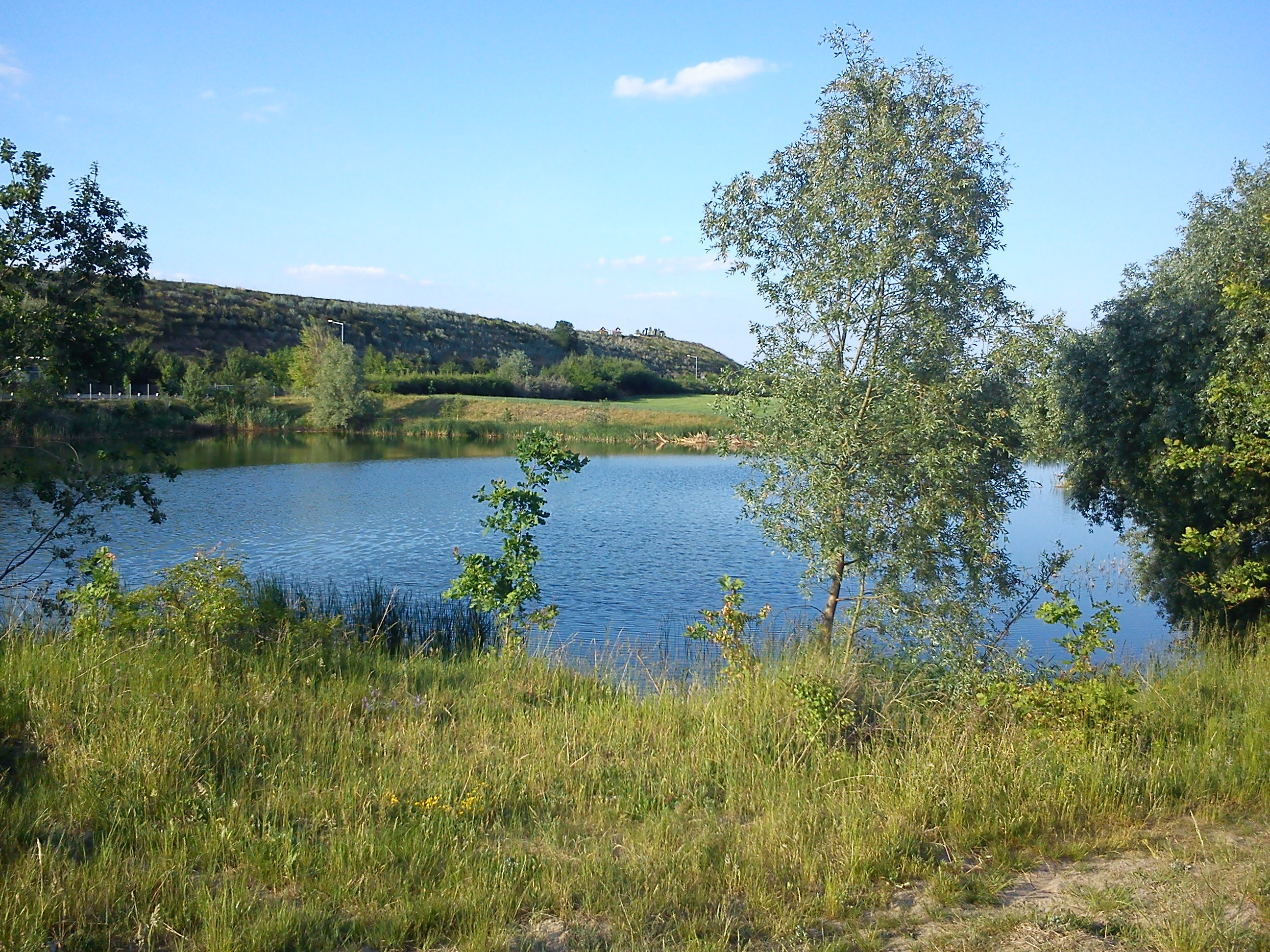 Landfill Poznan. Lake.